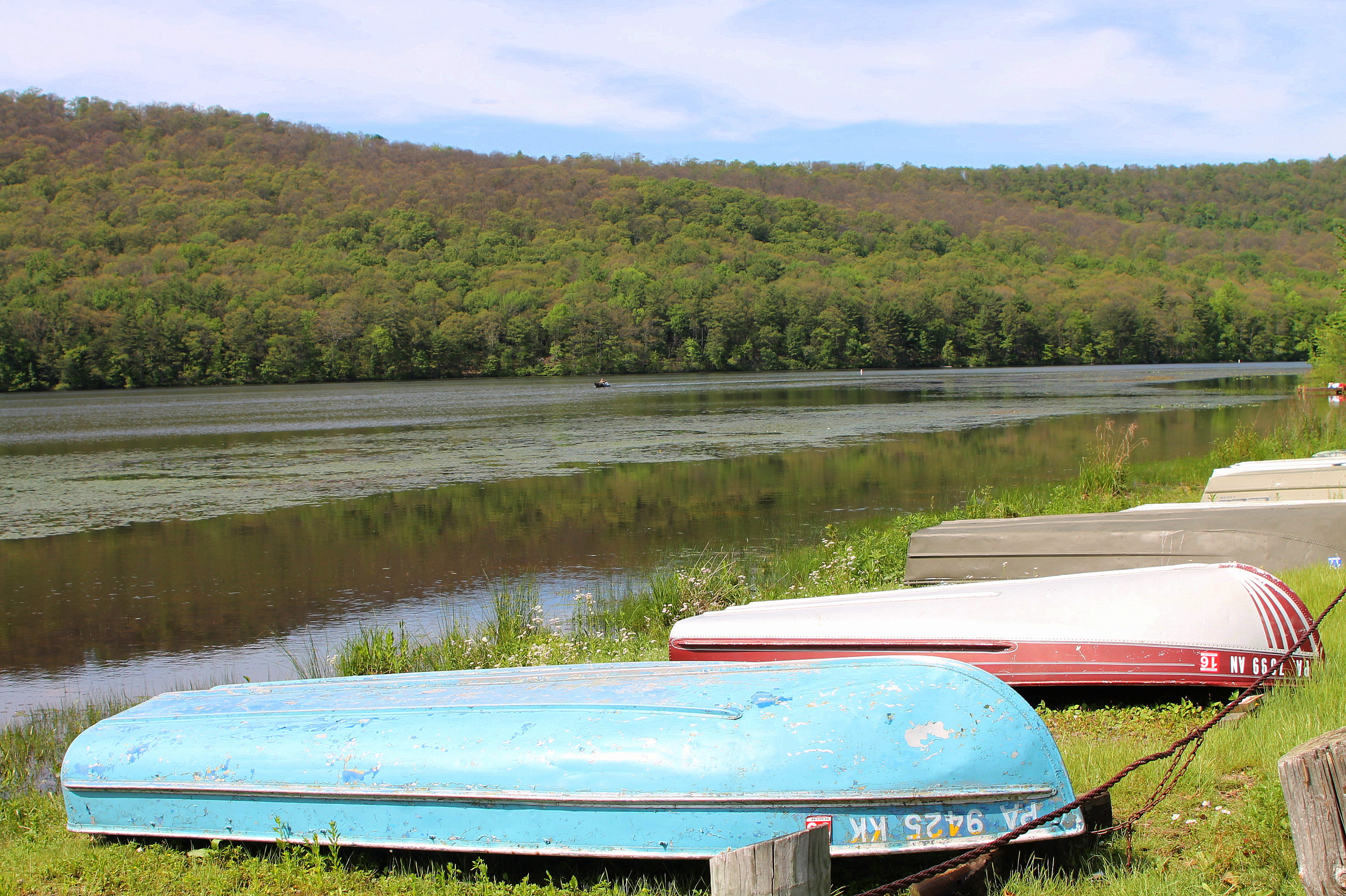 Boats at Lily Lake, with the lake's eastern part in the background. Someone is boating in the distance.